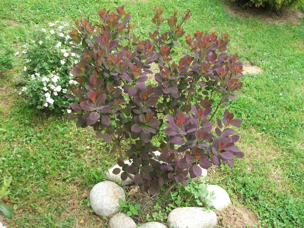 Eurasian smoketree (Cotinus coggyria)